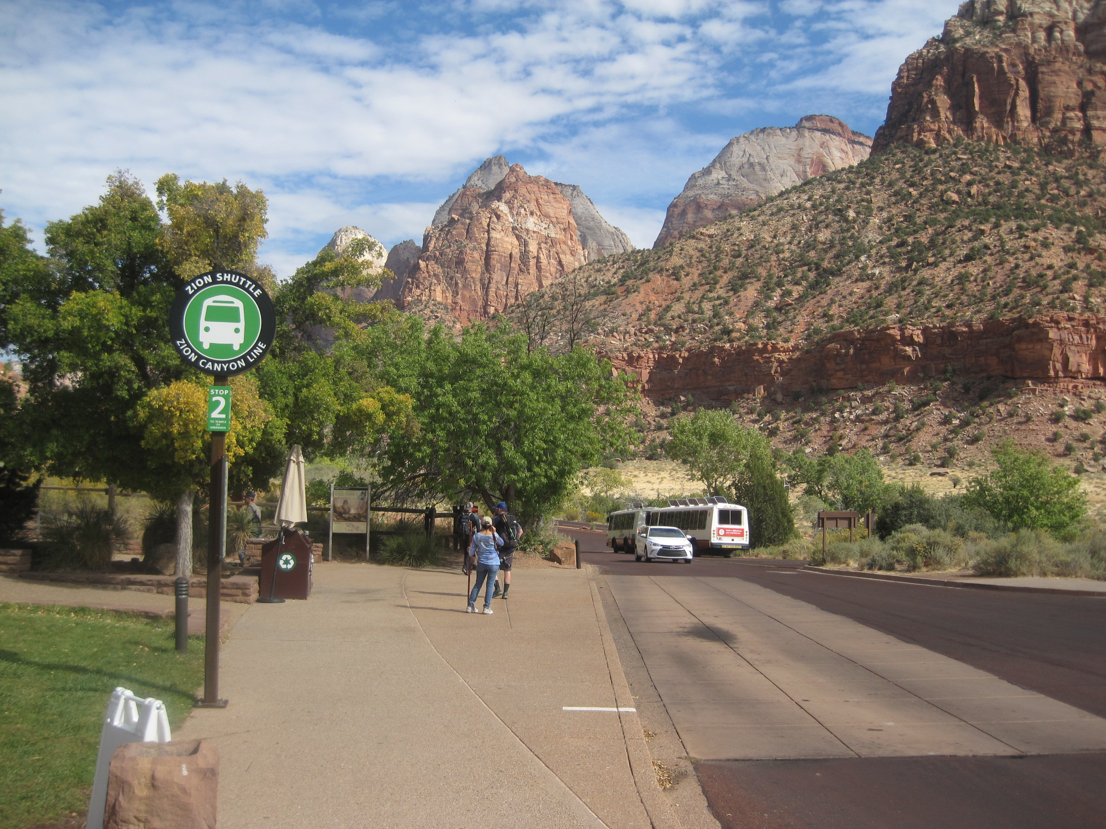 Shuttle bus stop #2 at Zion Canyon